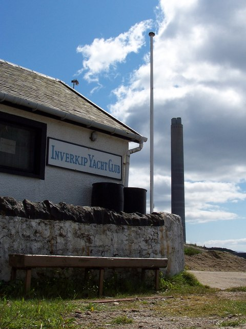 Inverkip Yacht Club A thriving club located between Kip Marina and Inverkip Power Station.